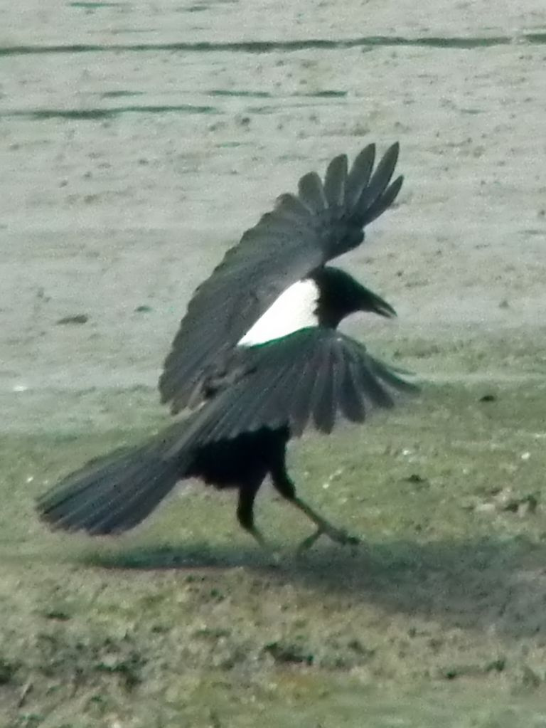 Saw at the river side Got a video as well.